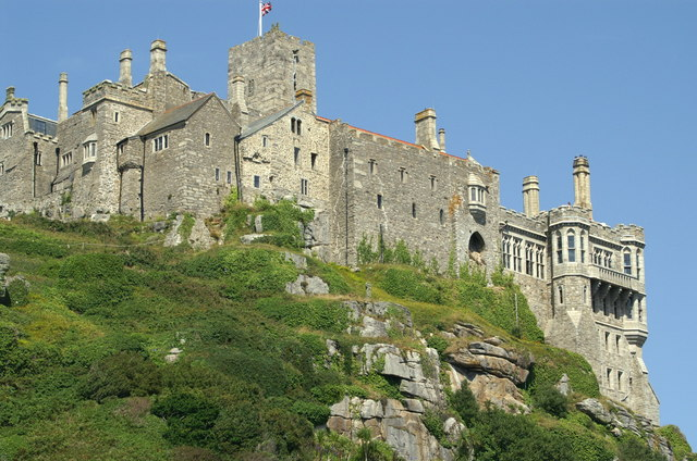 St Michael's Mount from the Sea View from the south west.